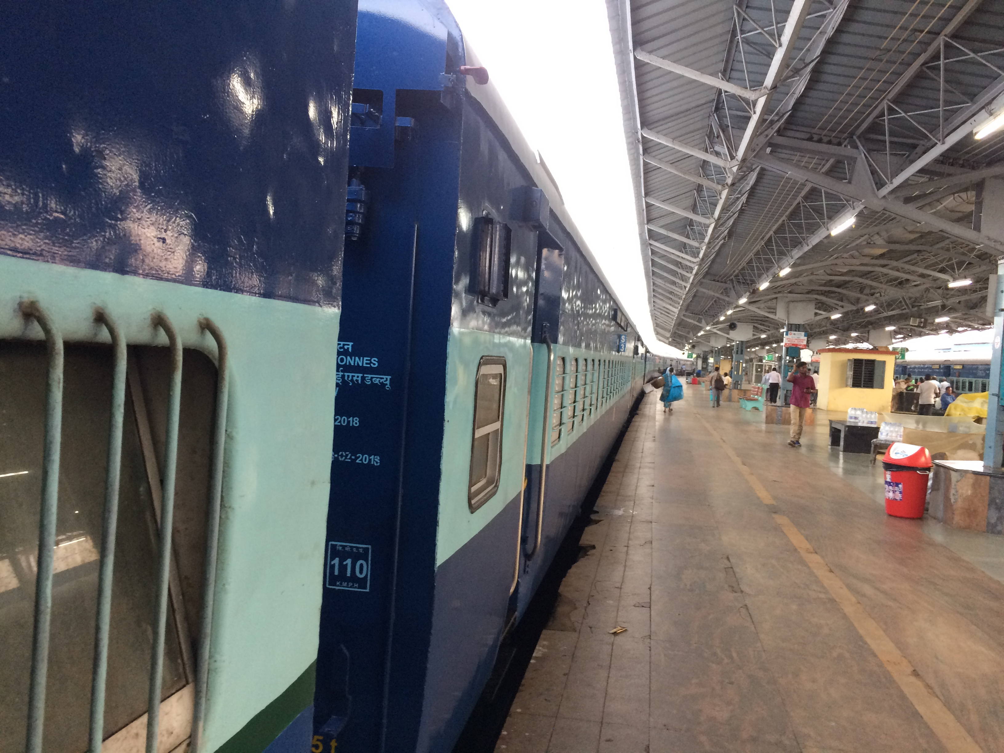 Kovai Express in Chennai Central Platform 10